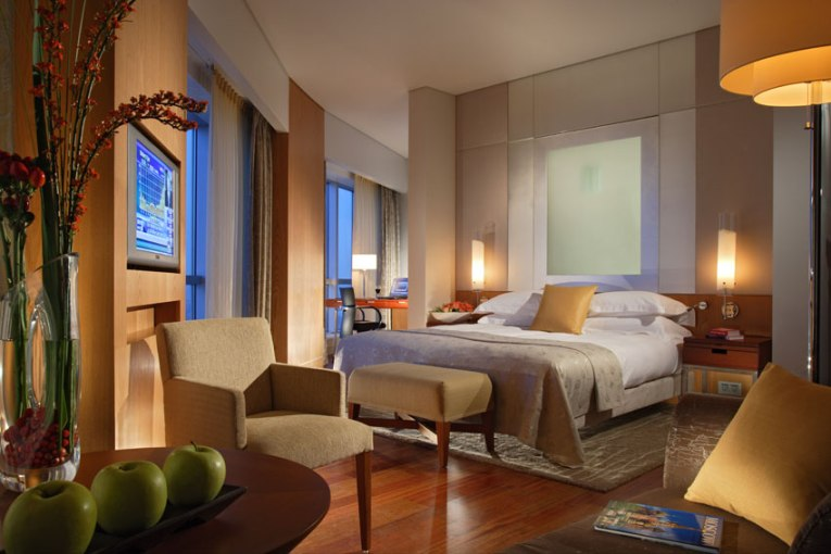 Panorama Room at Swissotel Krasnye Holmy Moscow